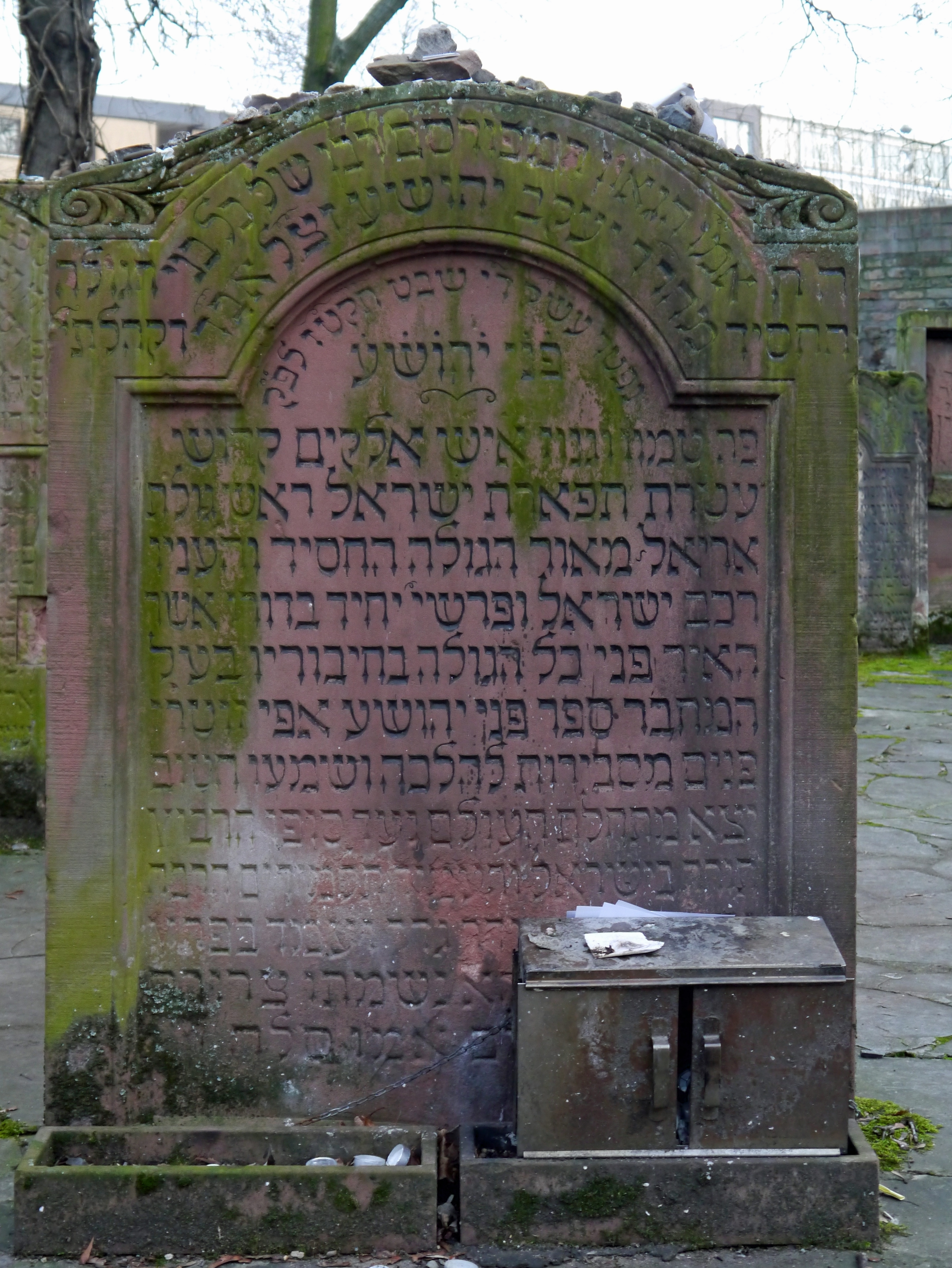 Jewish cemetery "Battonnstrasse" in Frankfurt am Main-Innenstadt, gravestone with inv.-nr. 0082, year: 1756.